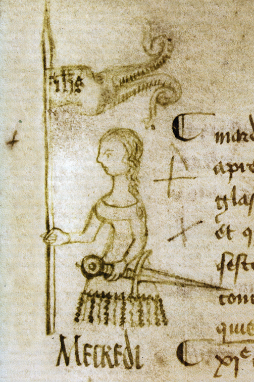 Joan of Arc in the protocol of the parliament of Paris (1429). Drawing by Clément de Fauquembergue. French National Archives